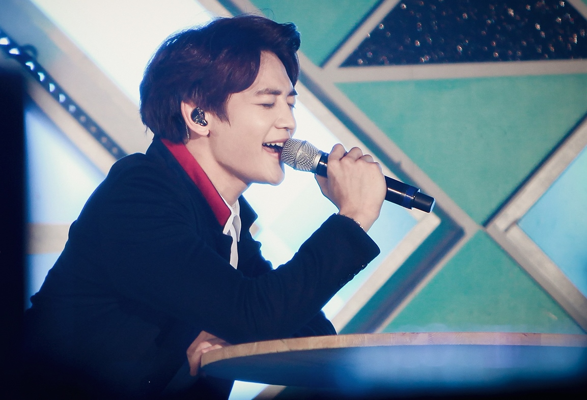 Minho at the SMTown Week on December 21, 2013.